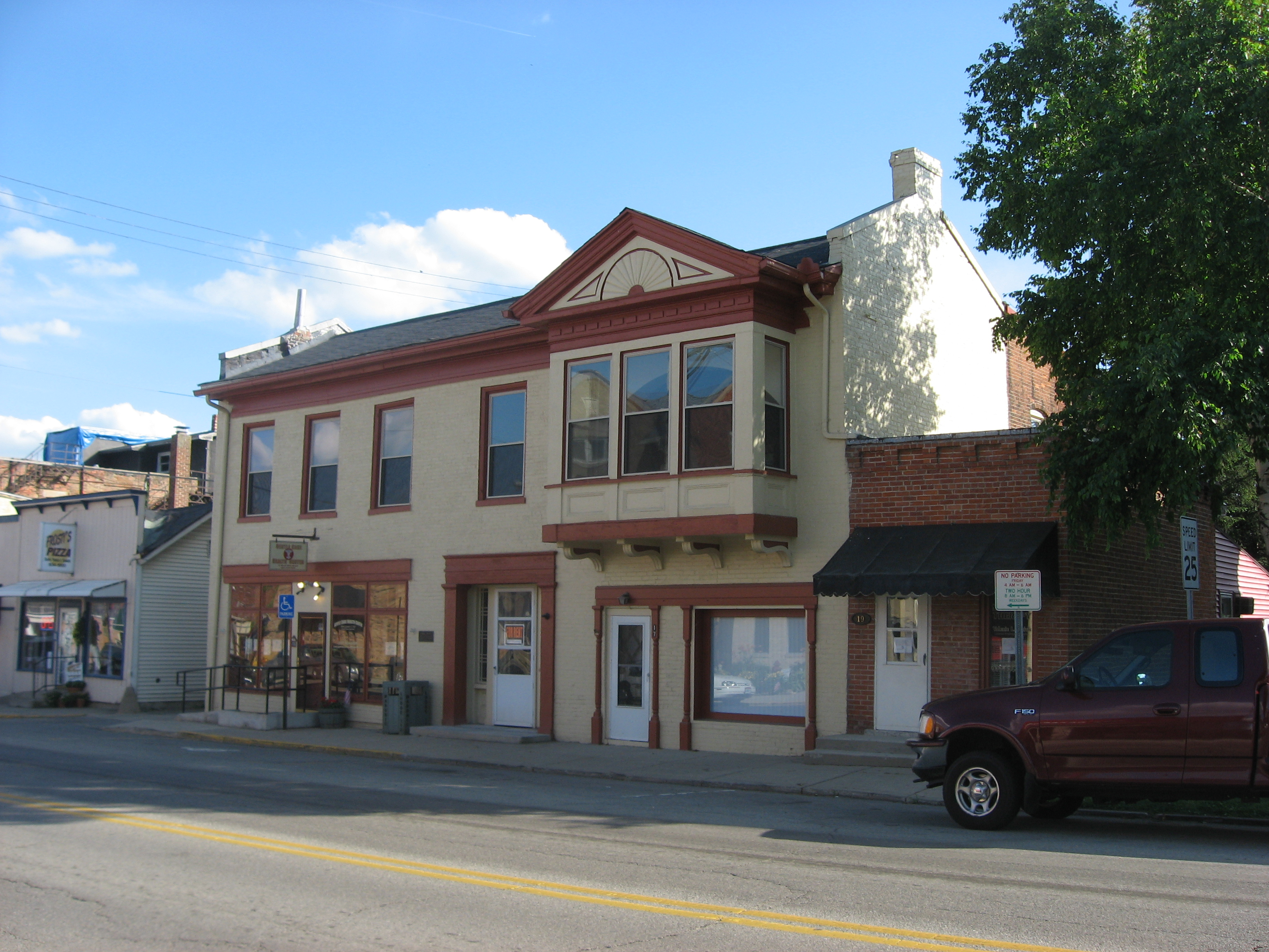 Front of Lawler's Tavern, located in the first block of N. Main Street (State Route 29) in Mechanicsburg, Ohio, United States. Built in 1830, it is listed on the National Register of Historic Places.